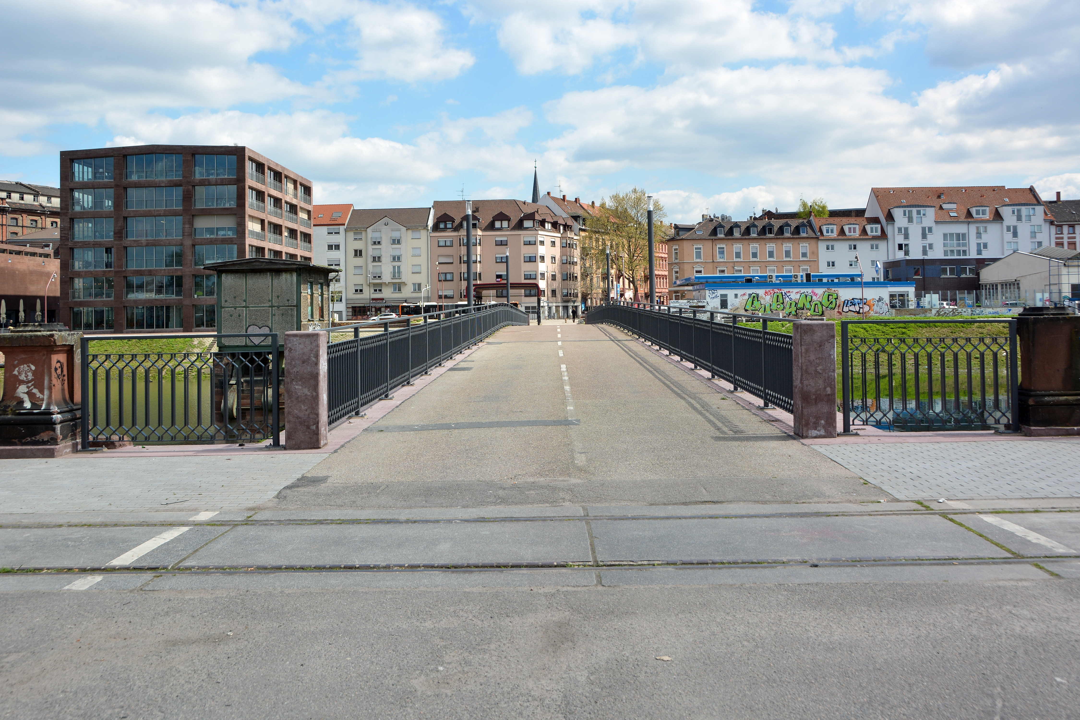 Teufelsbrücke ("Devil's Bridge"), Mannheim, view over the bridge to Mannheim-Jungbusch, situation after renovation 2015